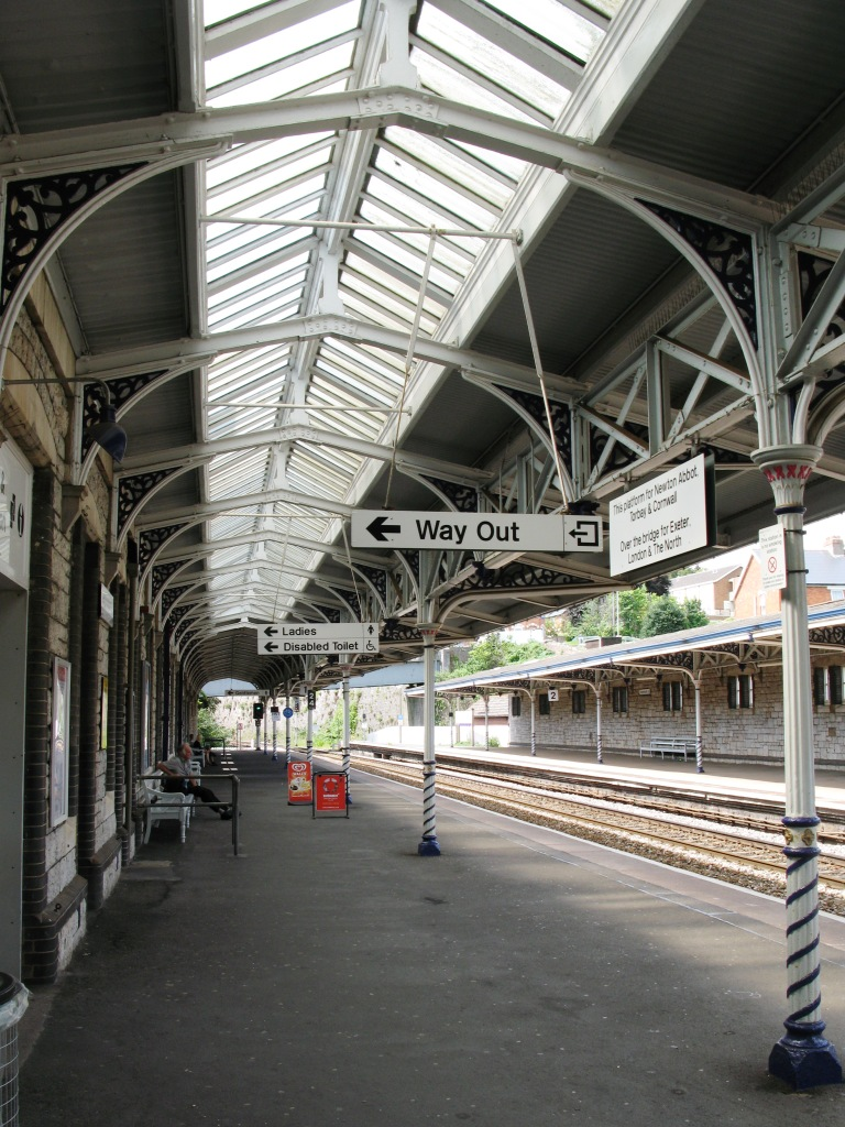 Platofrm 1 at Teignmouth station in Devon, England, is used by trains to Paignton and Penzance.